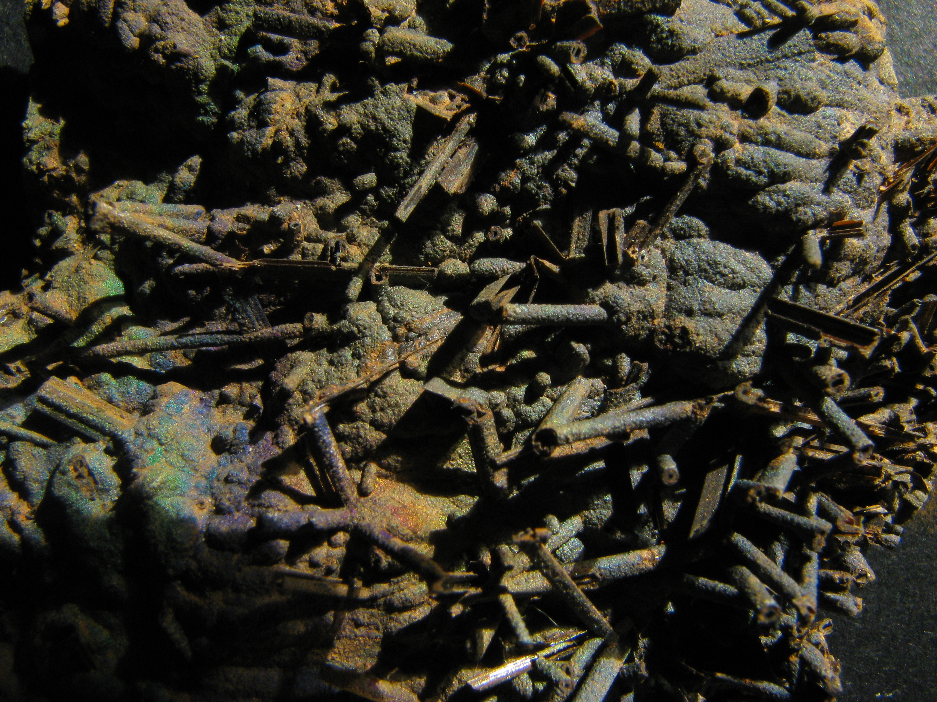 Tubular Goethite (detail)